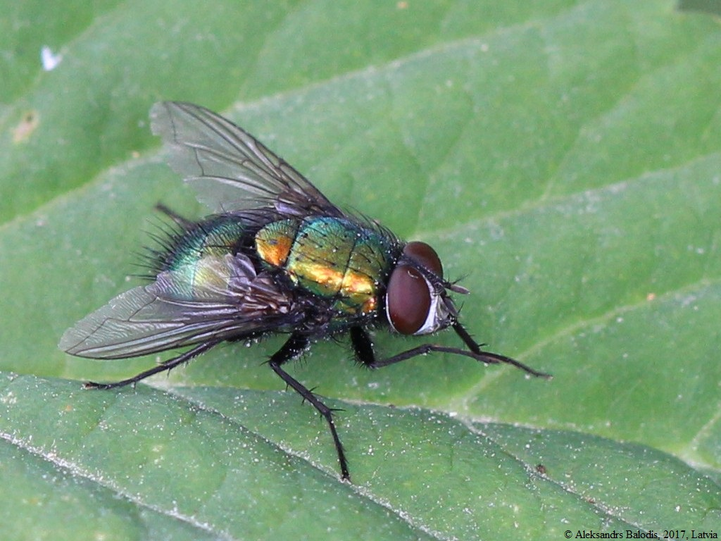 Lucilia silvarum